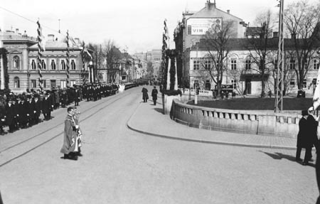 The grand opening of the University of Turku in 1922.